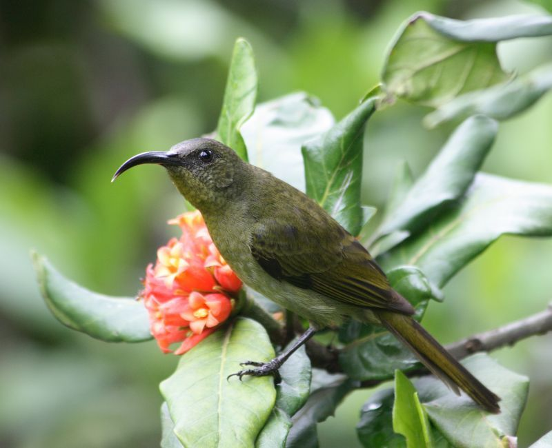 Location: Queen Elizabeth Park, Pietermaritzburg, South Africa. For more information on this species